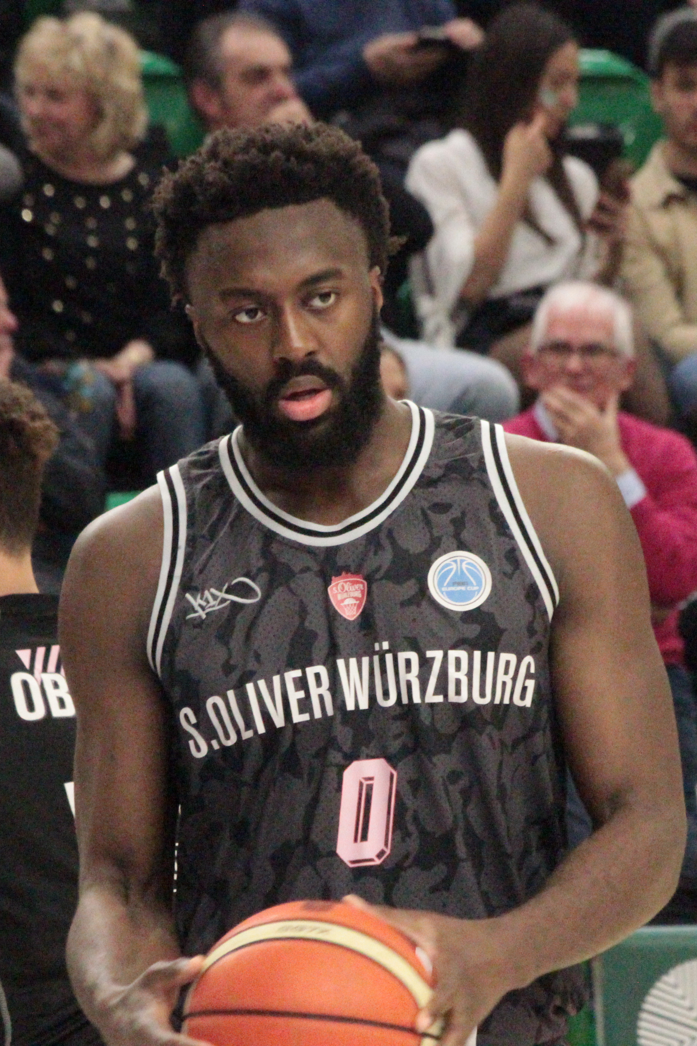 British basketball player Gabriel Olaseni with Wurzburg uniform